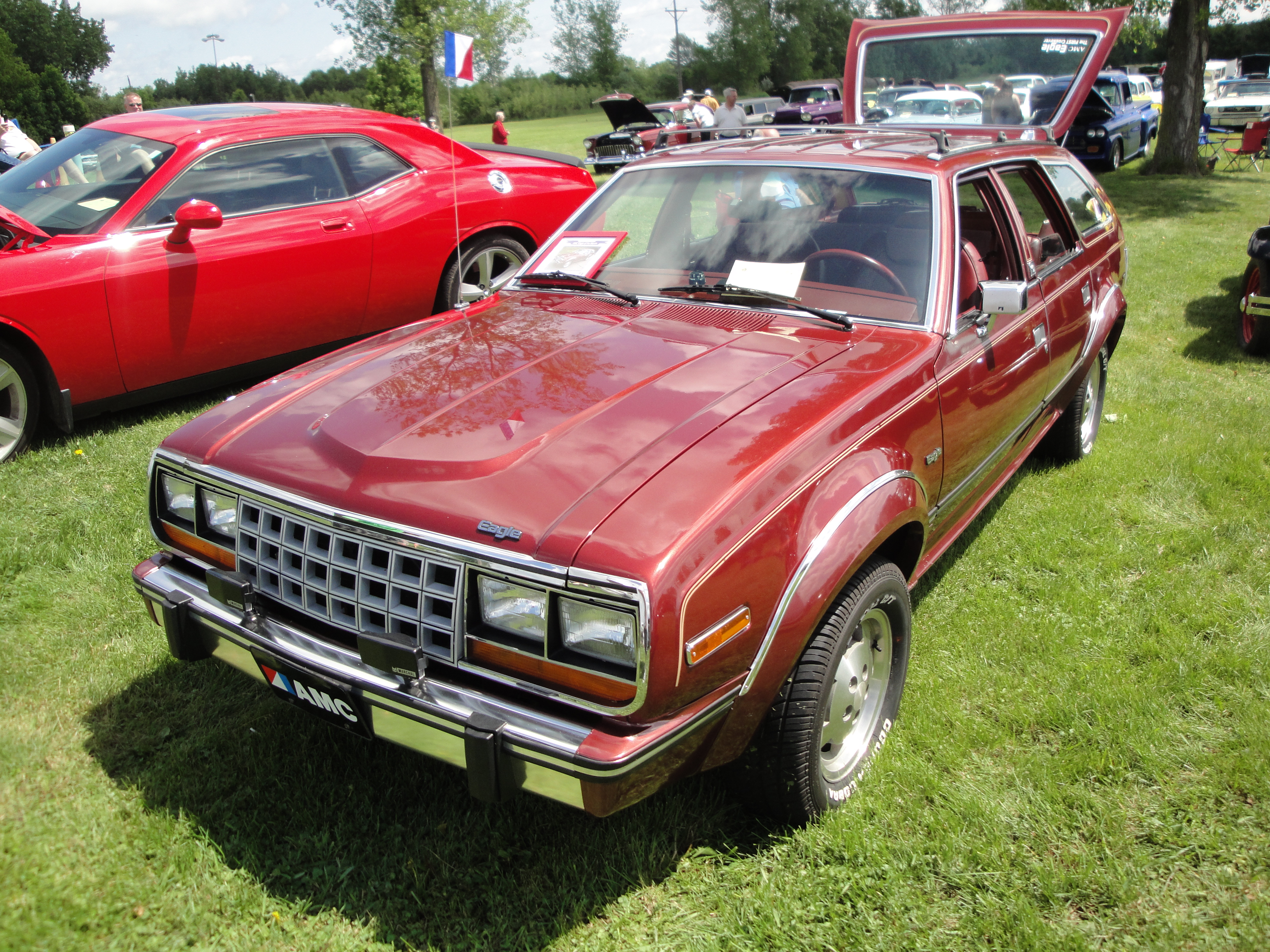 2012 Memorial Day Car Show Hosted by the North Star Chapter of the Studebaker Drivers Club